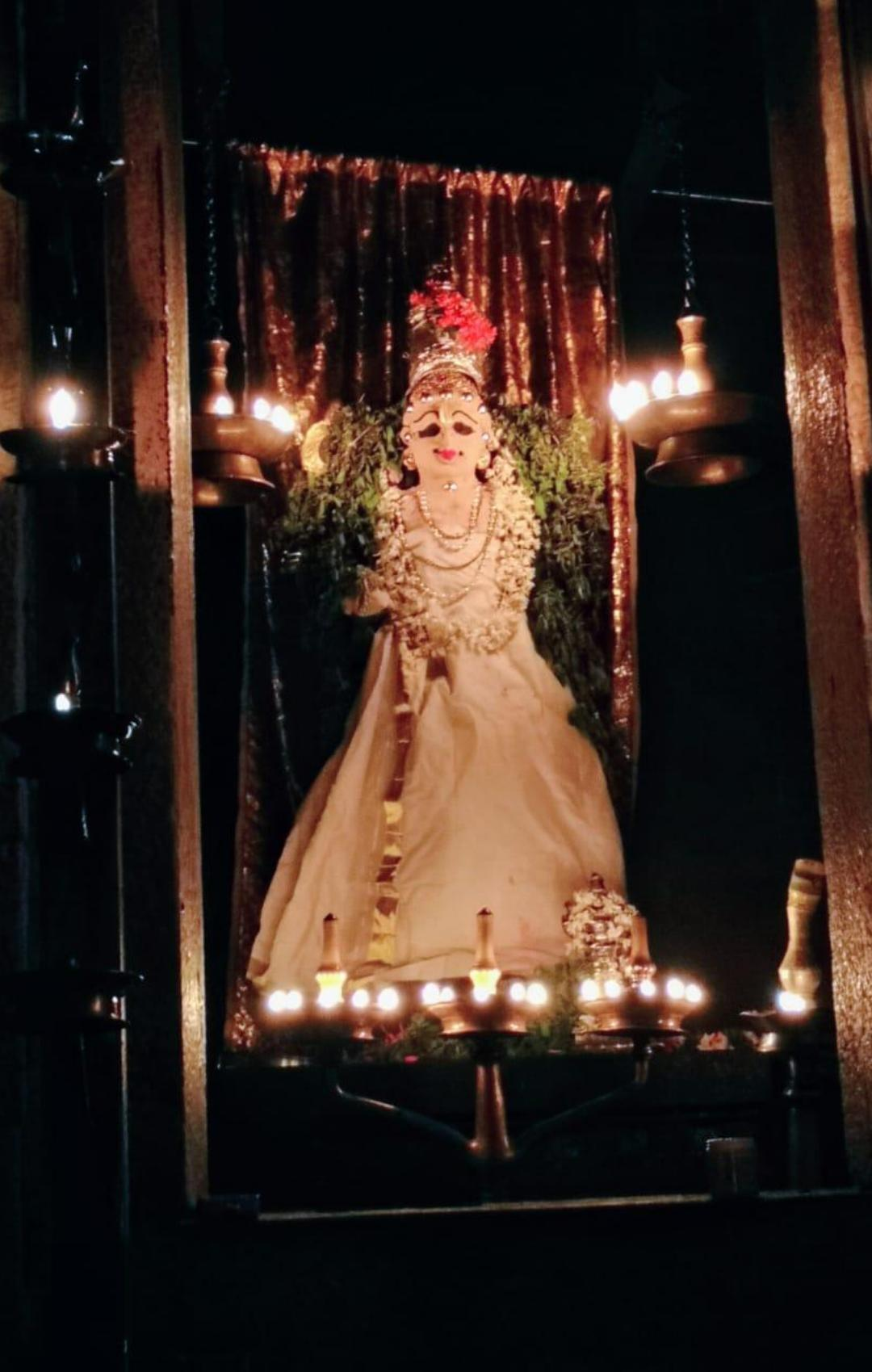 Sree JanardanaSwamy Temple, Varkala. Janardanaswami murthy